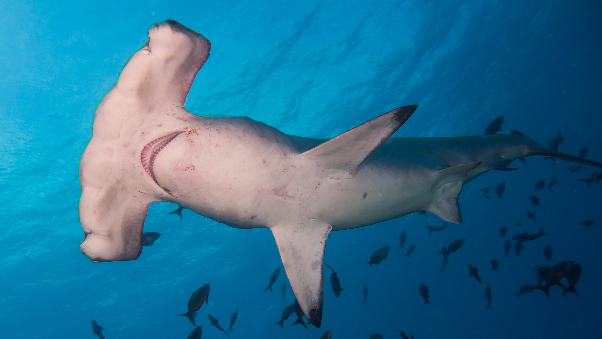 500px provided description: The wide-set eyes give hammerheads long visual range, better than most sharks. [#sea ,#ocean ,#animals ,#animal ,#shark ,#wildlife ,#underwater ,#diving ,#dive ,#marine ,#costa rica ,#marine life ,#scuba ,#cocos island ,#scuba diving ,#hammerhead shark ,#scubadive ,#scuba dive]